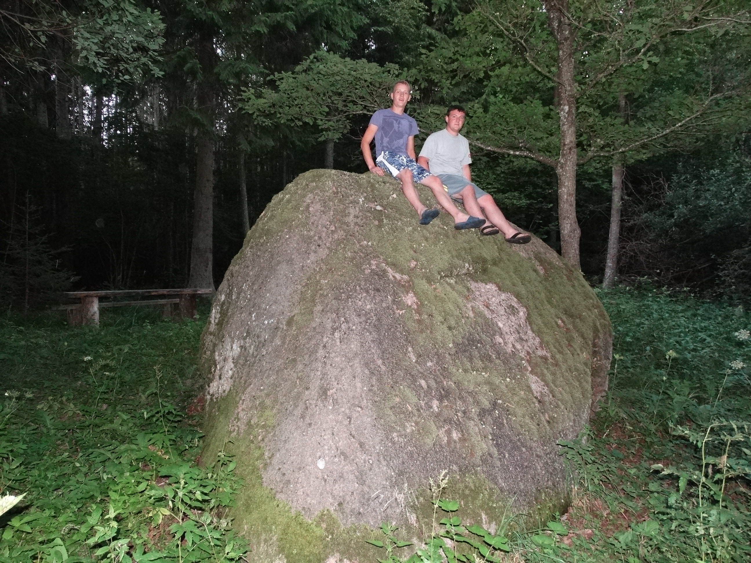 Barbora Stone, Anykščiai, Lithuania